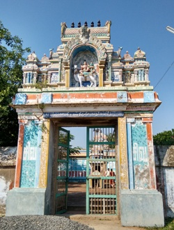 Vijayamangai vijayanatheswarar temple entrance திருவிஜயமகை விஜயநாதேஸ்வரர் கோயில் நுழைவாயில்